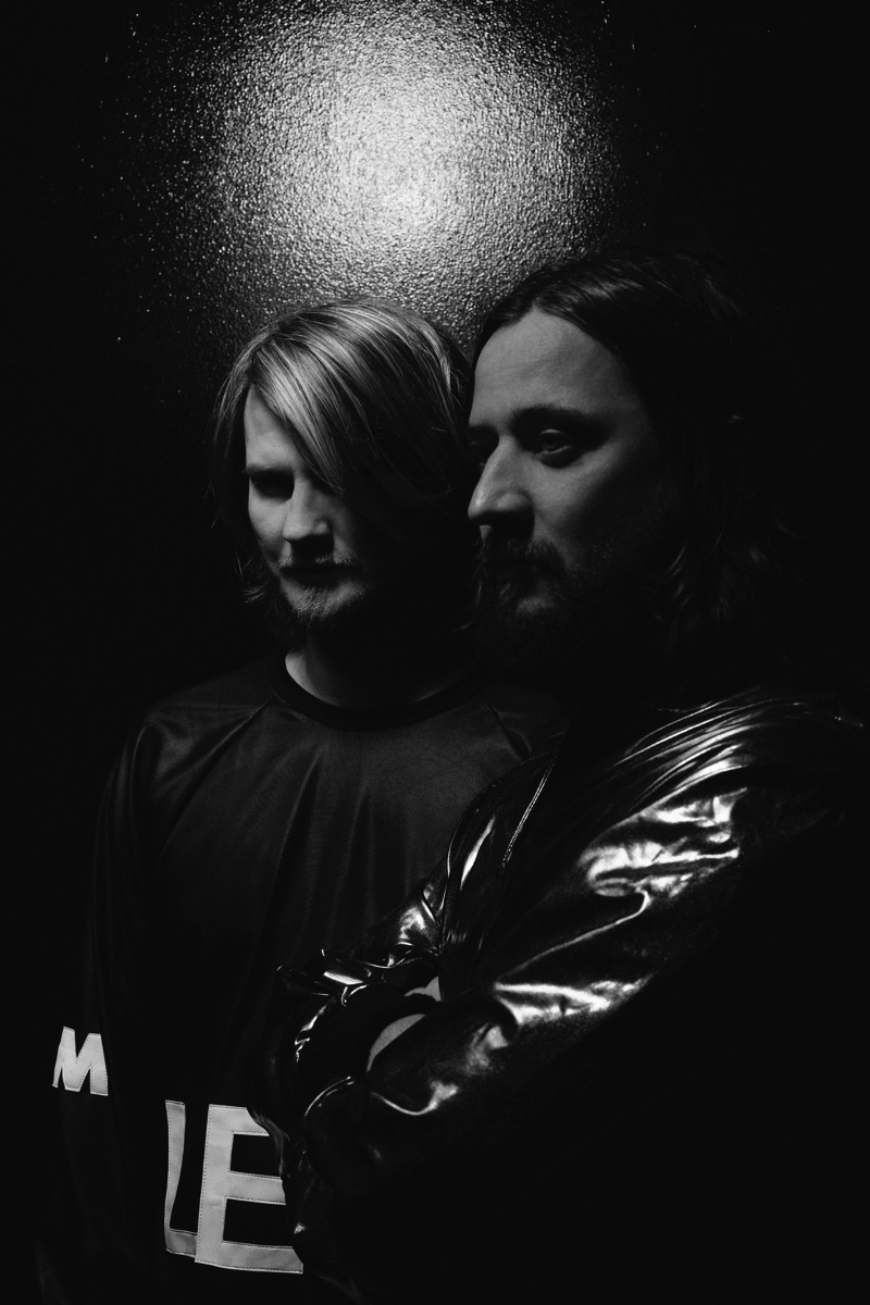 Electronic music duo Röyksopp from Norway.